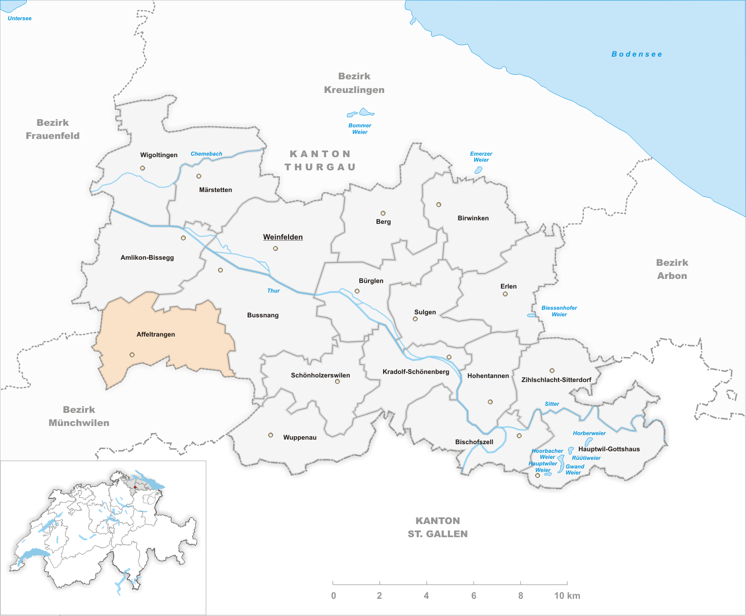 Municipality Affeltrangen